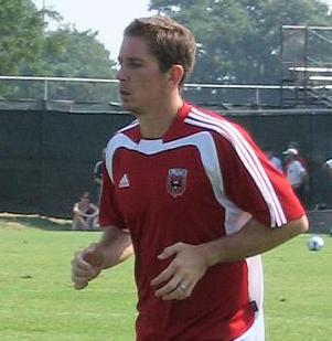 Photo of Troy Perkins taken by me at a D.C. United reserve game at Robert F. Kennedy Memorial Stadium's auxillary field.